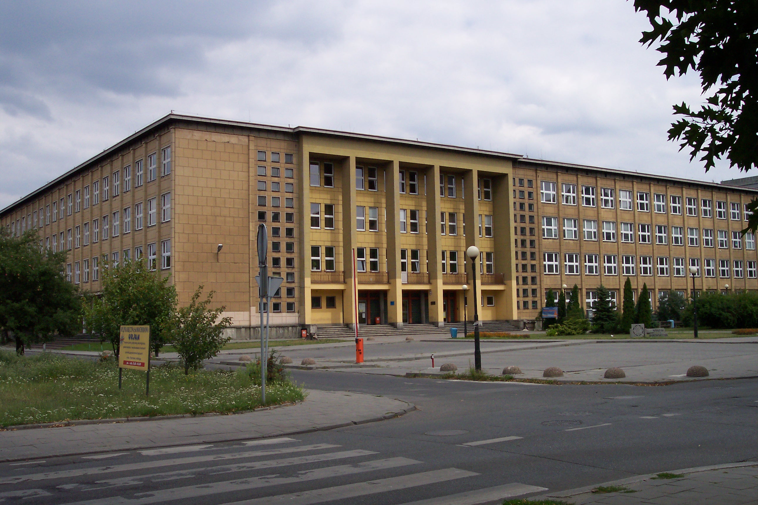 Silesian University of Technology - Faculty of Civil Engineering